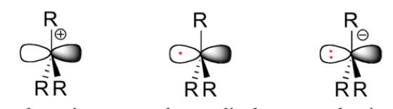 fdsafds